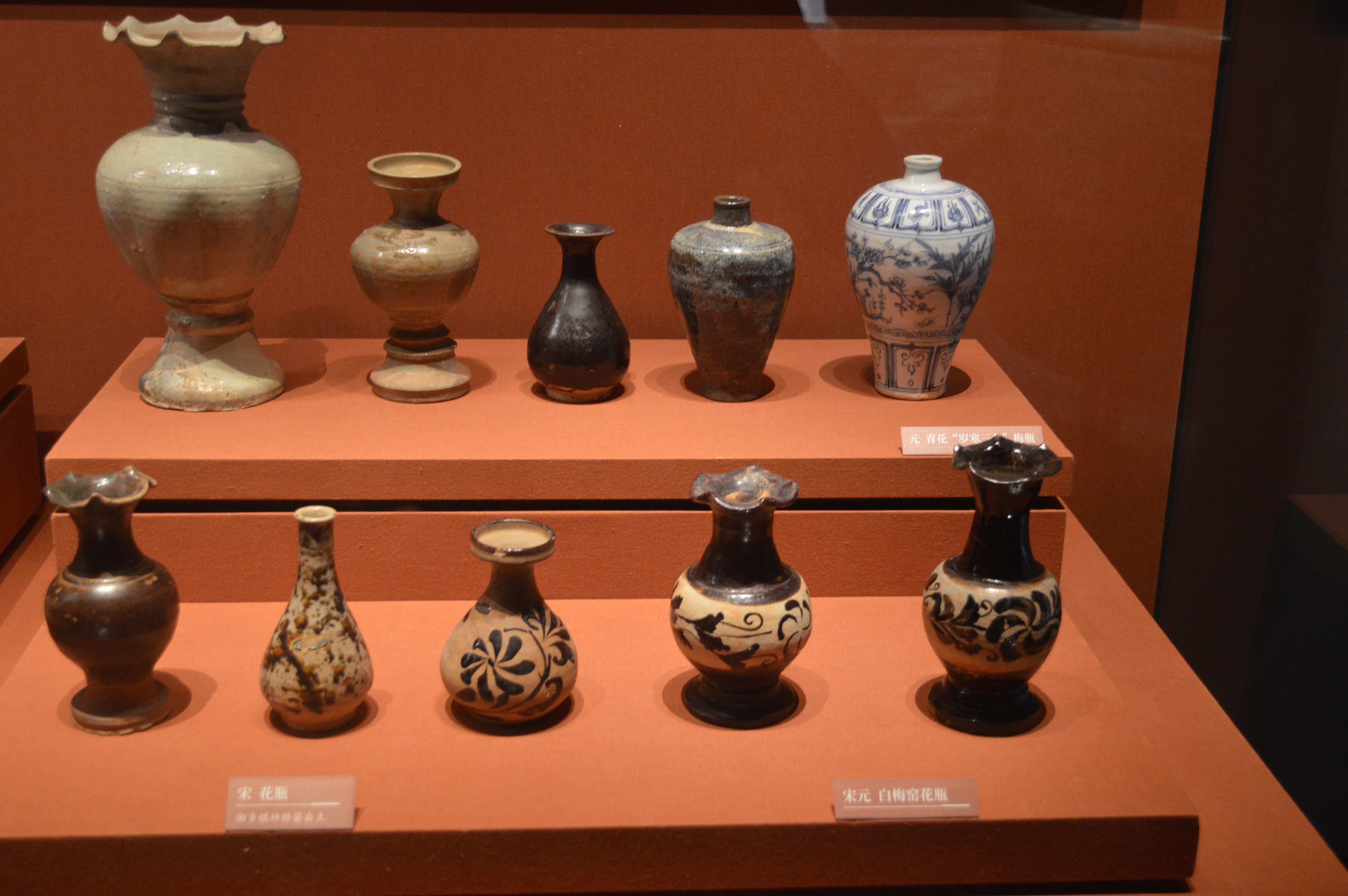 Porcelain vases, Song dynasty (960-1279), Hunan Museum.